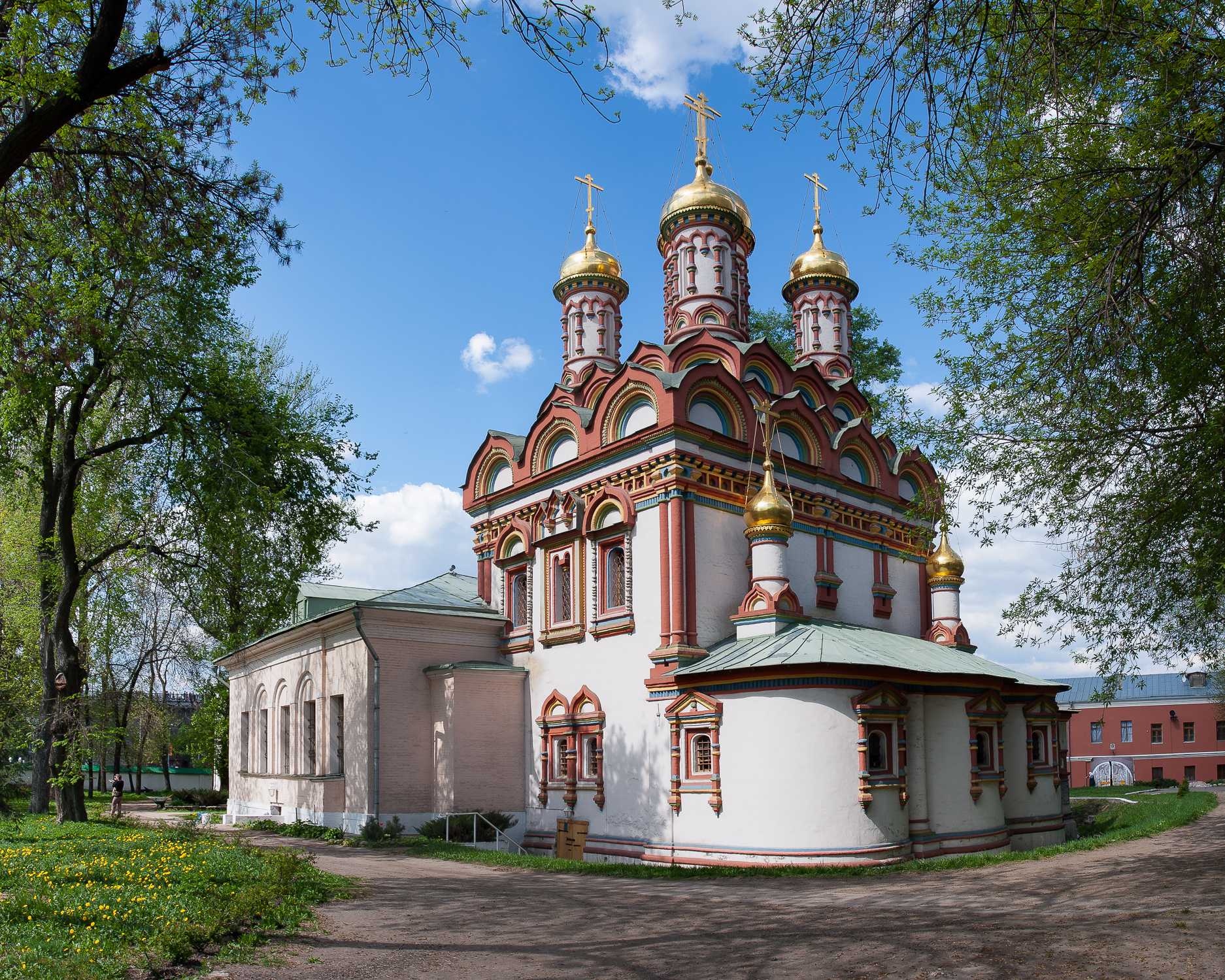 Church of St Nicholas / Moscow, Russia